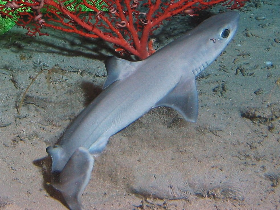 Cuban dogfish (Squalus cubensis) at the West side Little Bahamas Bank, Bahamas Islands